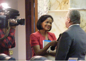 I took this picture 11/07